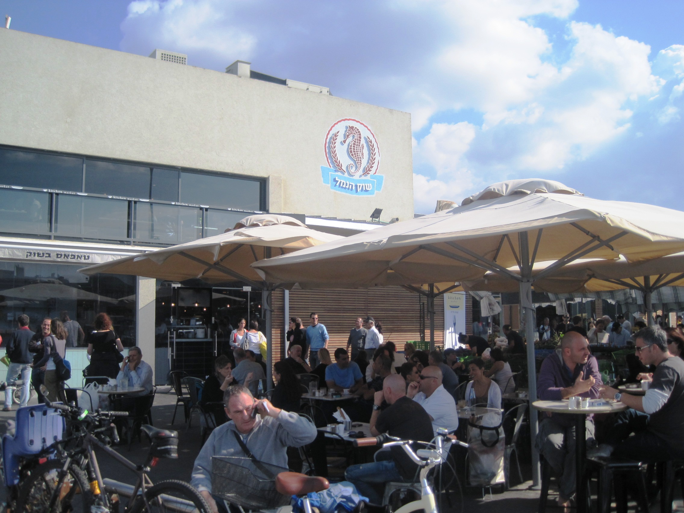 Farmers' markets in Tel Aviv 2011